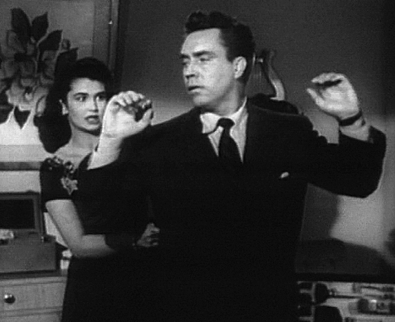 Cropped screenshot of Laurette Luez and Edmond O'Brien from the film D.O.A. (1950).